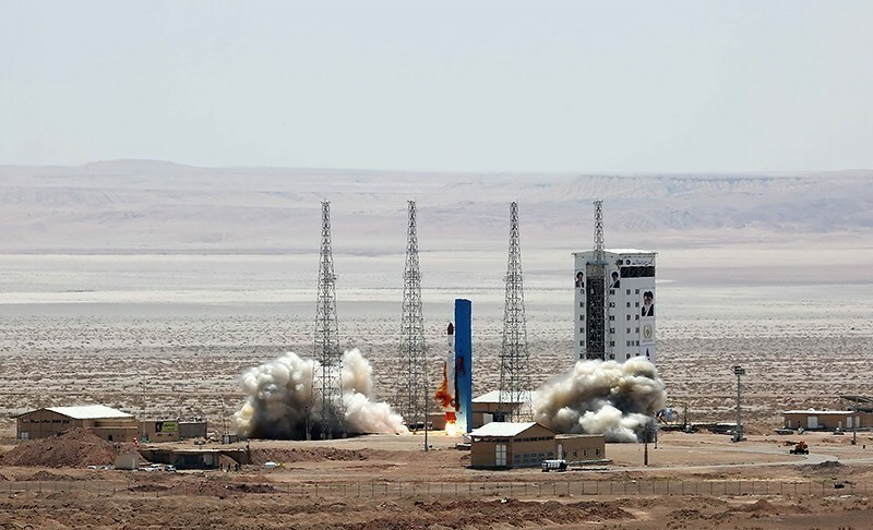 Simorgh — Opening of Imam Khomeini National Space Base